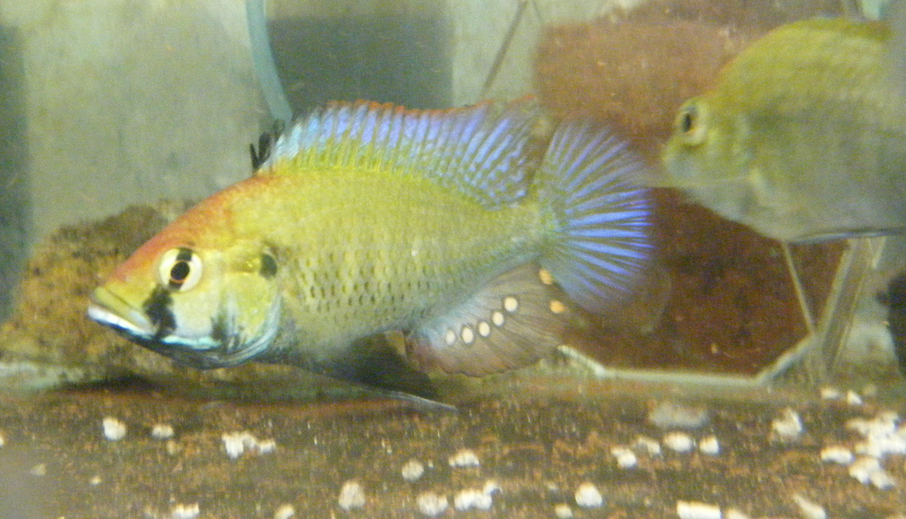 Astatotilapia calliptera "Chilingali" wild caught male displaying to female, from Lake Chilingali